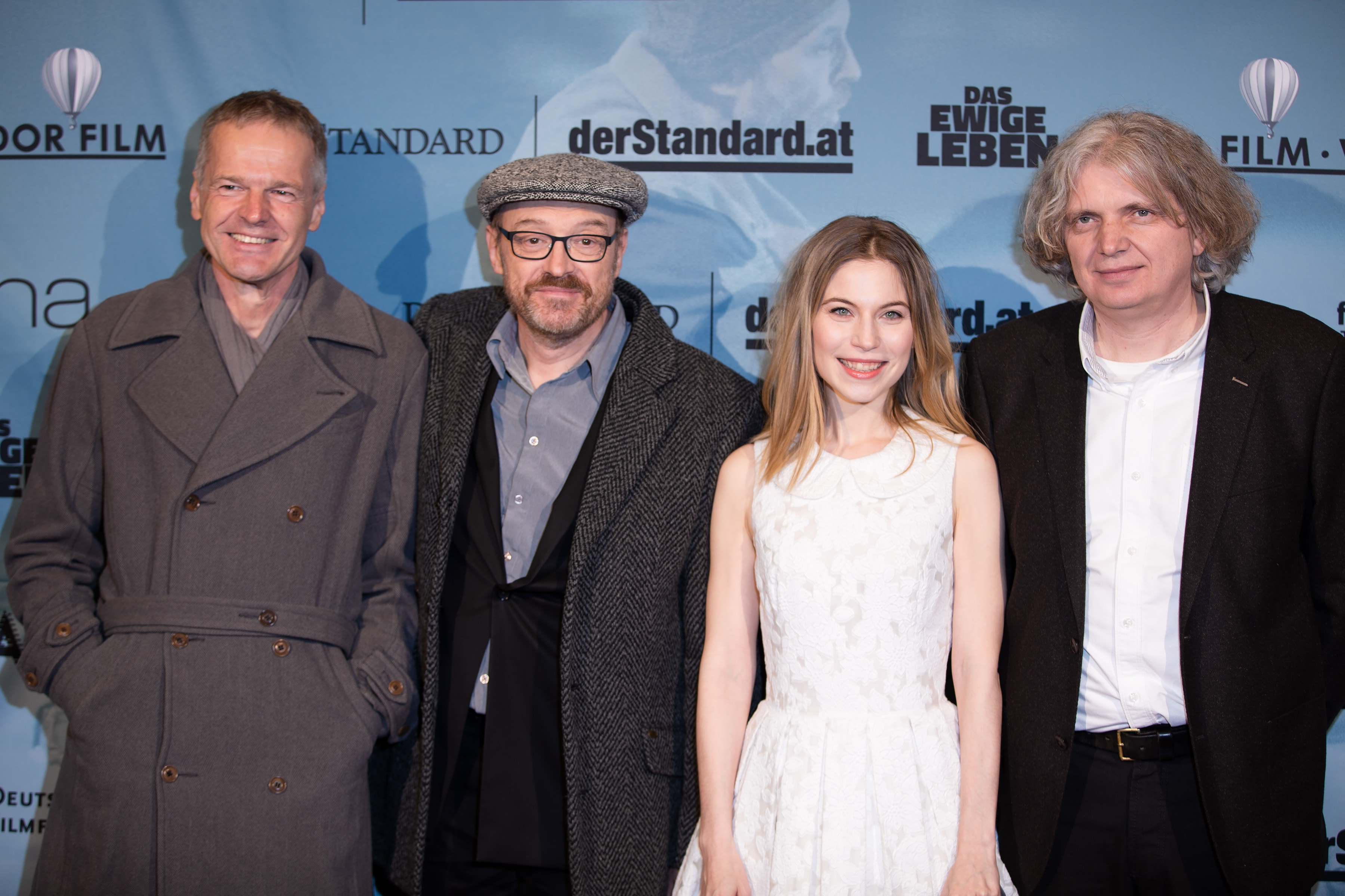 Premiere of the film Das ewige Leben at Gartenbaukino in Vienna, Austria: Wolf Haas, Josef Hader, Nora von Waldstätten and Wolfgang Murnberger.